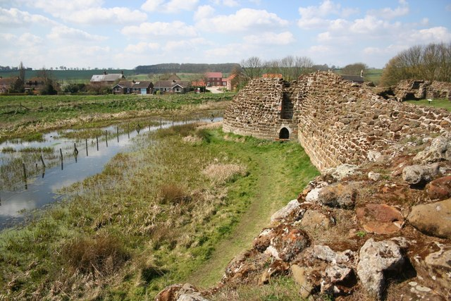 Kitchen Tower View of the moat and Kitchen Tower from the Auditor's Tower at Bolingbroke Castle.